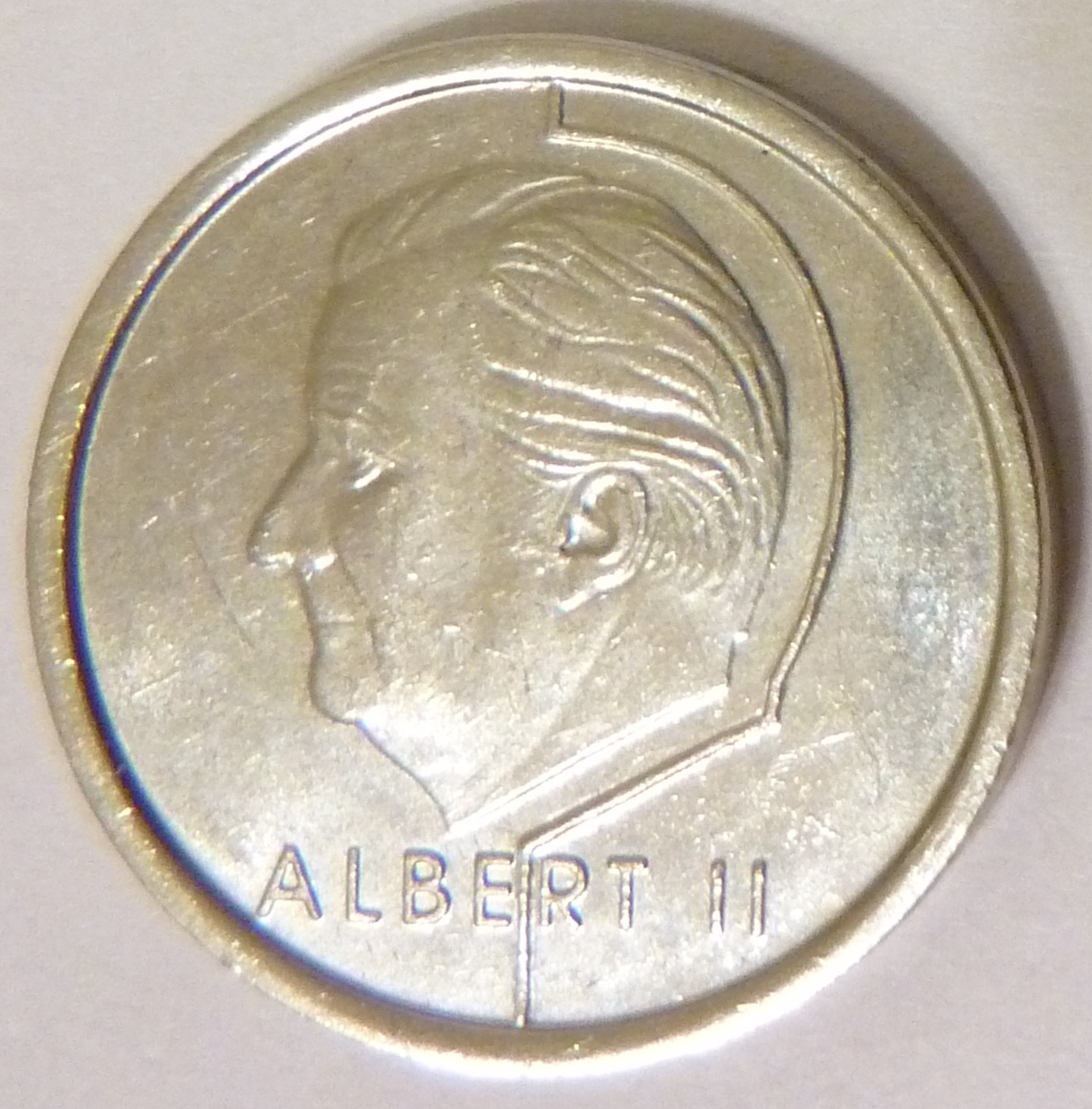 coins of belgium (1990ies)